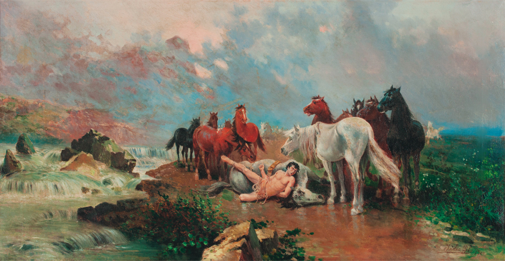 Mazepa